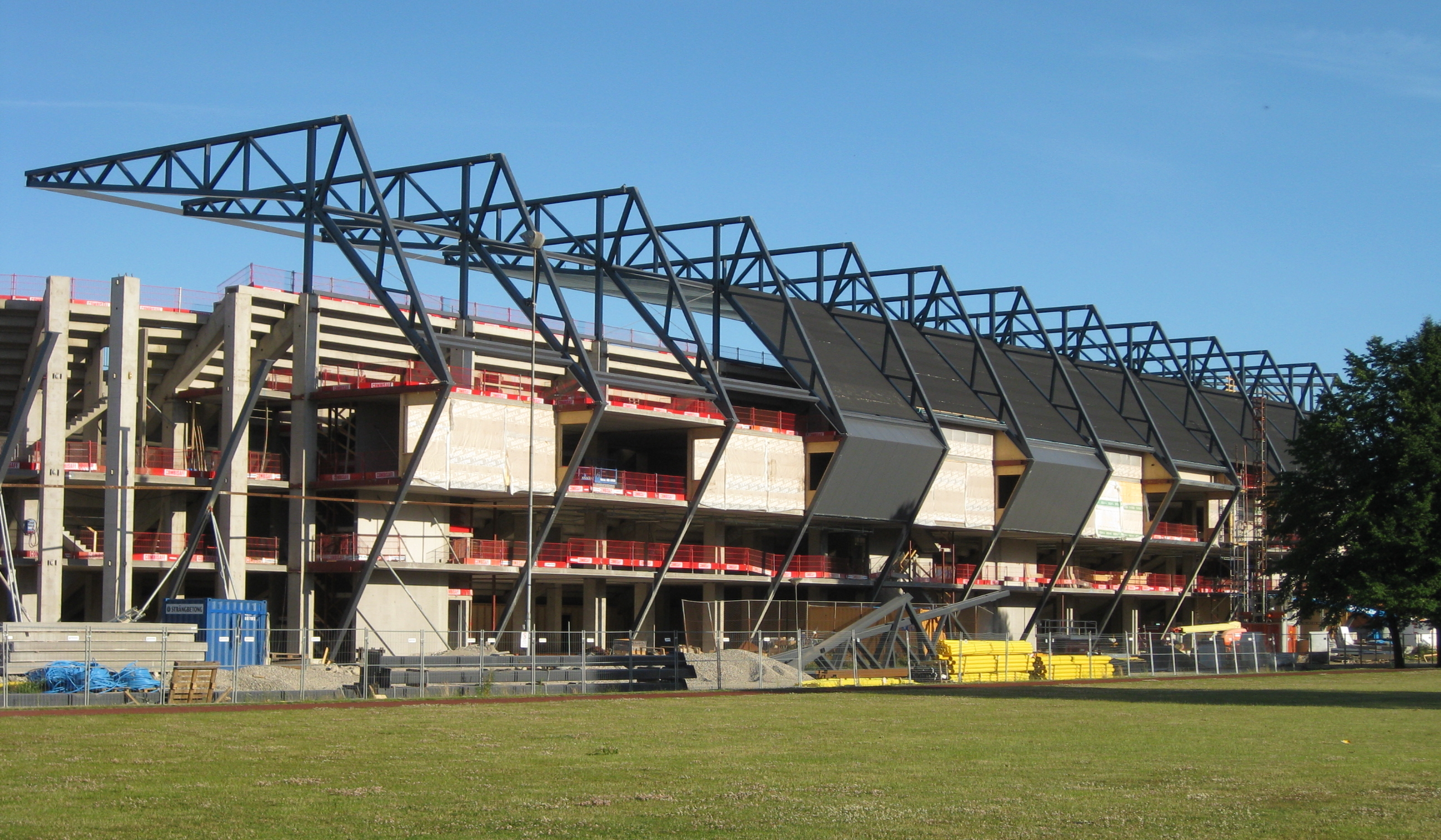 Swedbank Stadion in Malmö, Sweden, Building in progress.